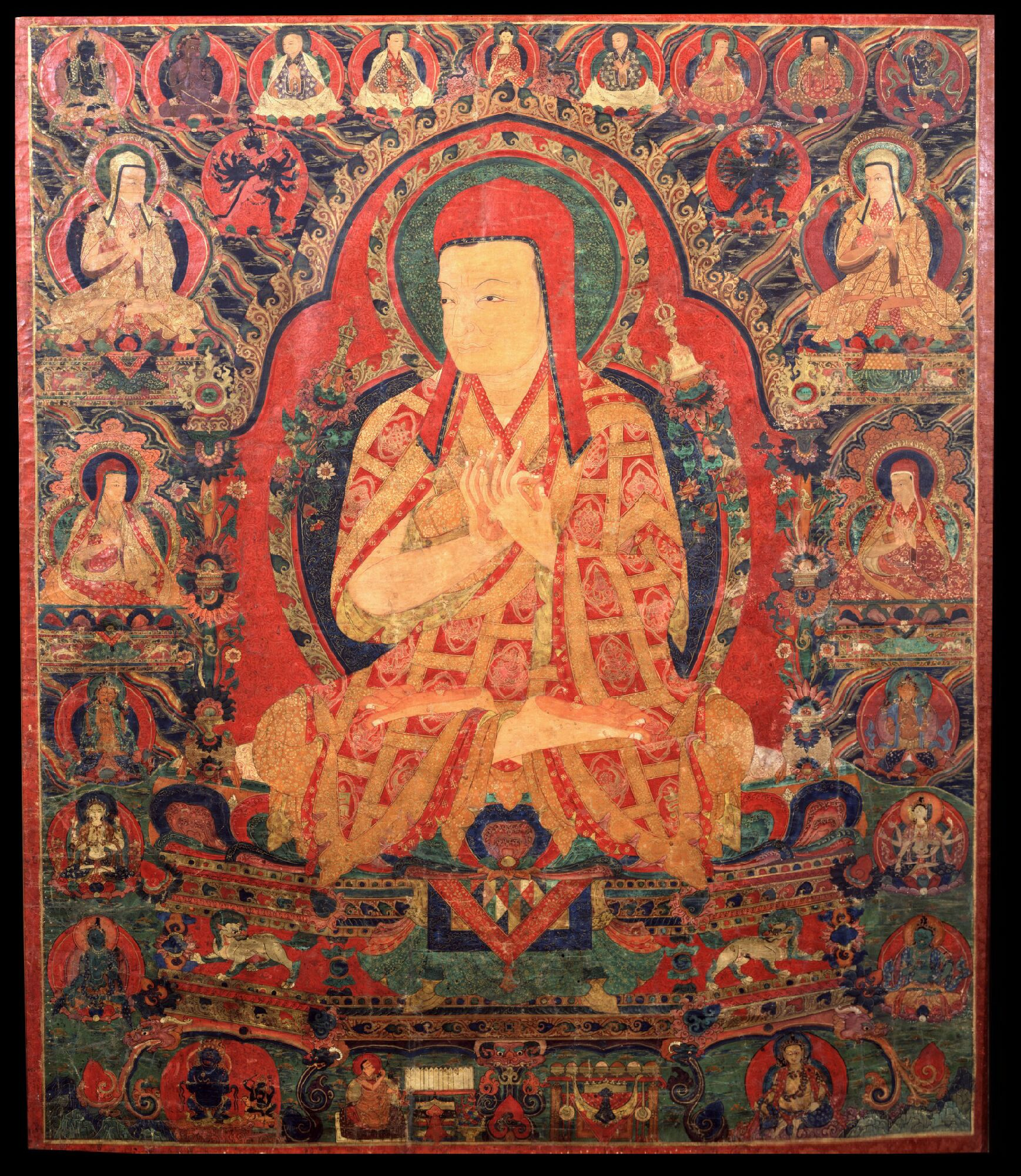 Ngorchen Kunga Zangpo, (b.1382 - d.1456), 1st Ngorchen, Tibet